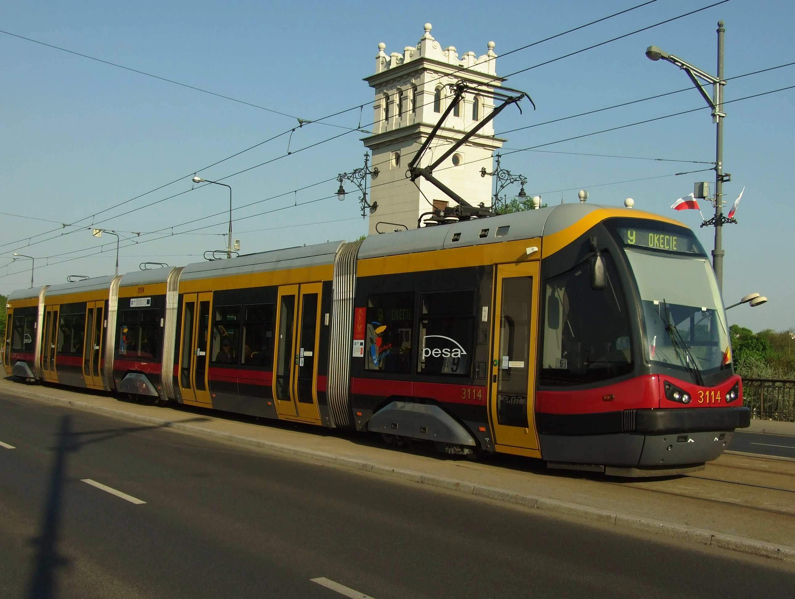 PESA 120N tram (#3114) in Warsaw, Poland. Built 2007, Tramwaje Warszawskie operator. Poniatowski Bridge.help